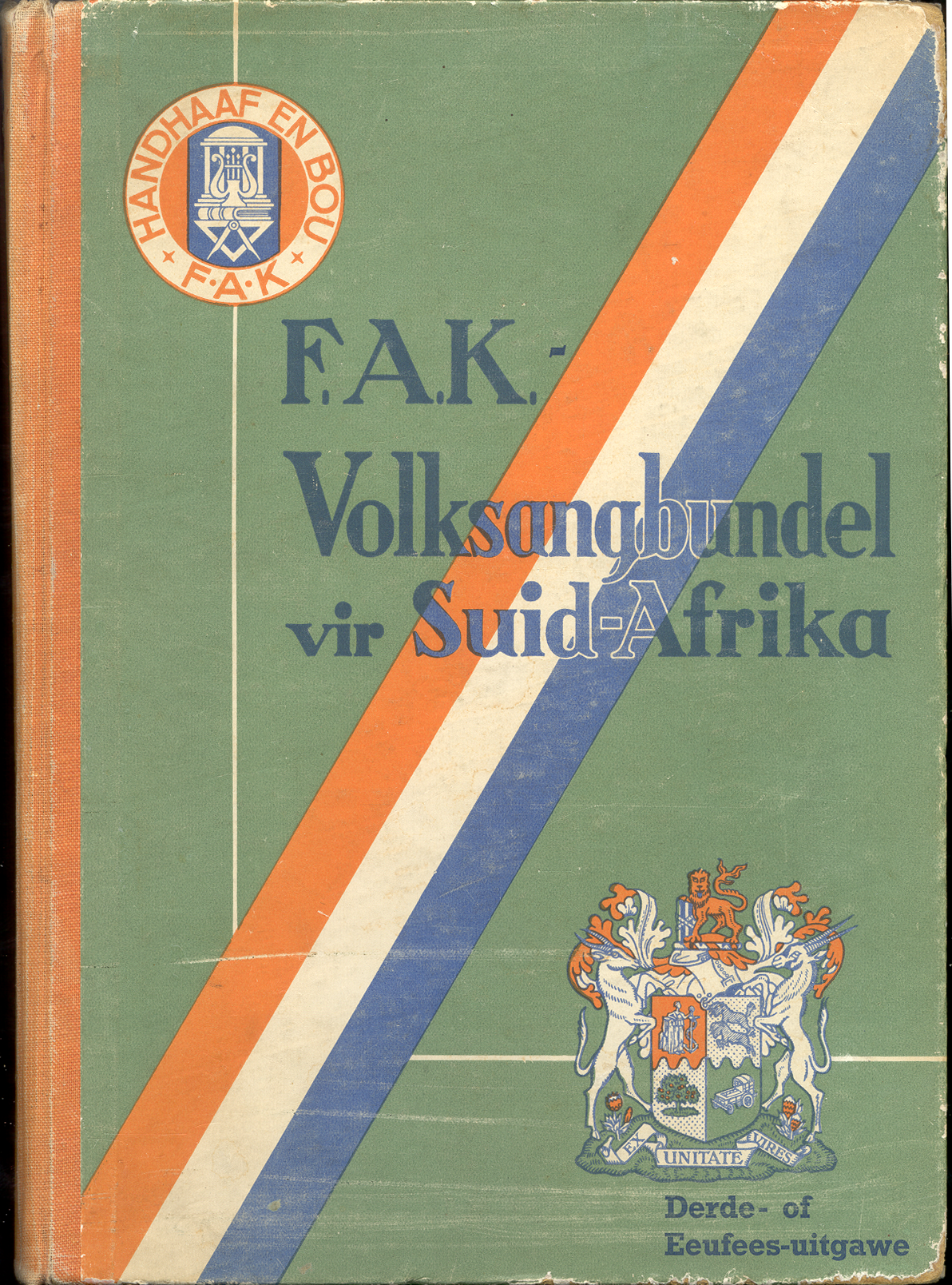 Excerpt from the F.A.K. (Federation of Afrikaans Culture societies) Volksangbundel (song compilation for the people). Logo on the top left translates as *F-A-K* Maintain and Build Text on bottom right translates as Third or Centenary edition